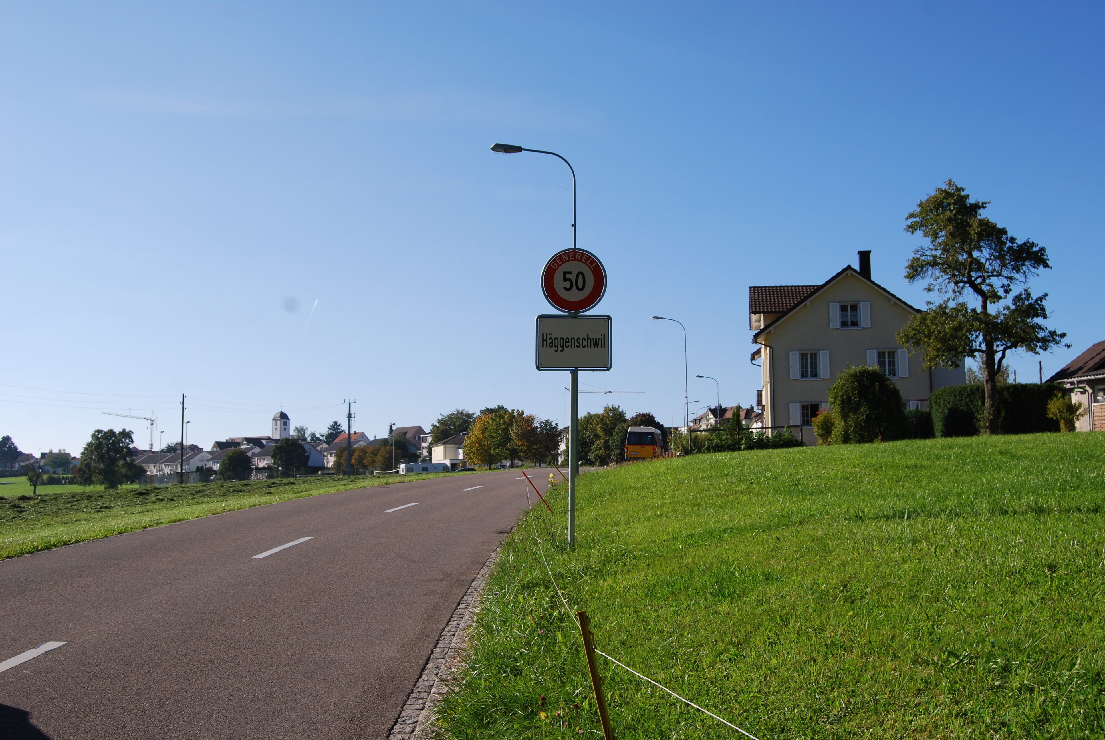 Häggenschwil, canton of St. Gallen, SwitzerlandEsperanto: Häggenschwil, Kantono Sankt-Galo, Svislando